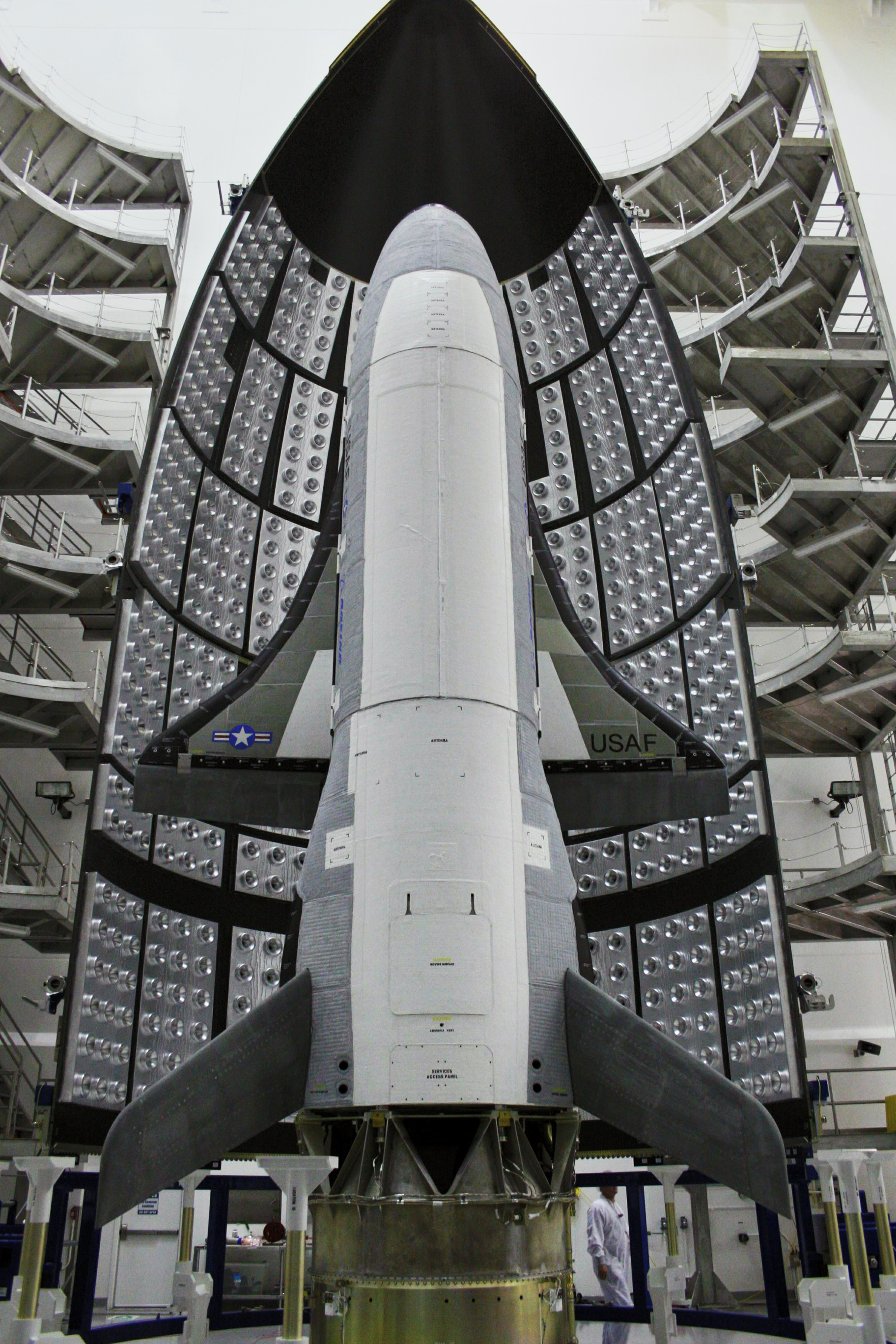 The X-37B Orbital Test Vehicle in the encapsulation cell at the Astrotech facility April 13, 2010, in Titusville, Florida. Air Force officials are scheduled to launch the X-37B April 21, 2010, at Cape Canaveral Air Station in Florida. The X-37B is the U.S.'s newest and most advanced unmanned re-entry spacecraft.